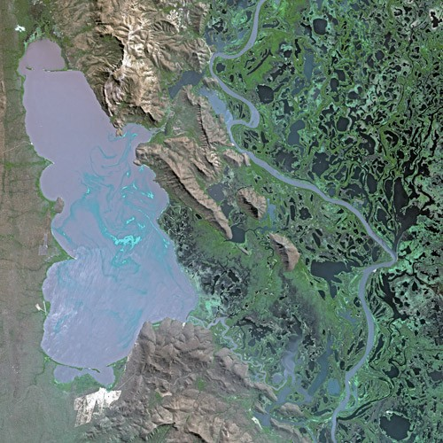 Pantanal by SPOT Satellite